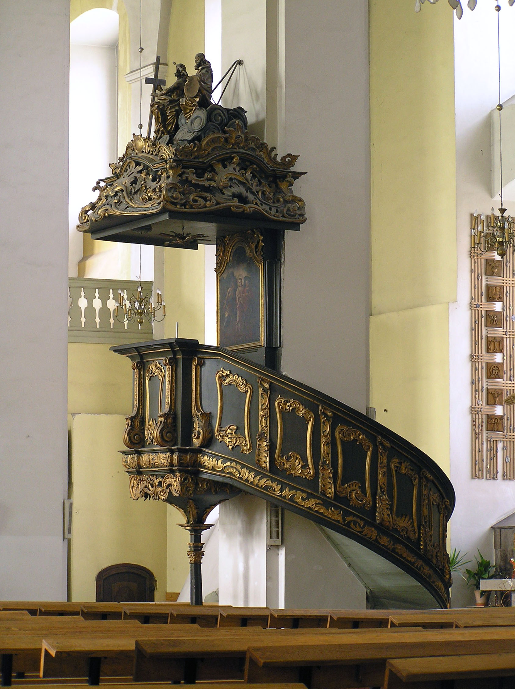 Toruń, Holy Ghost church, pulpit, 1759, probably Johann Anton Langehahn the Younger